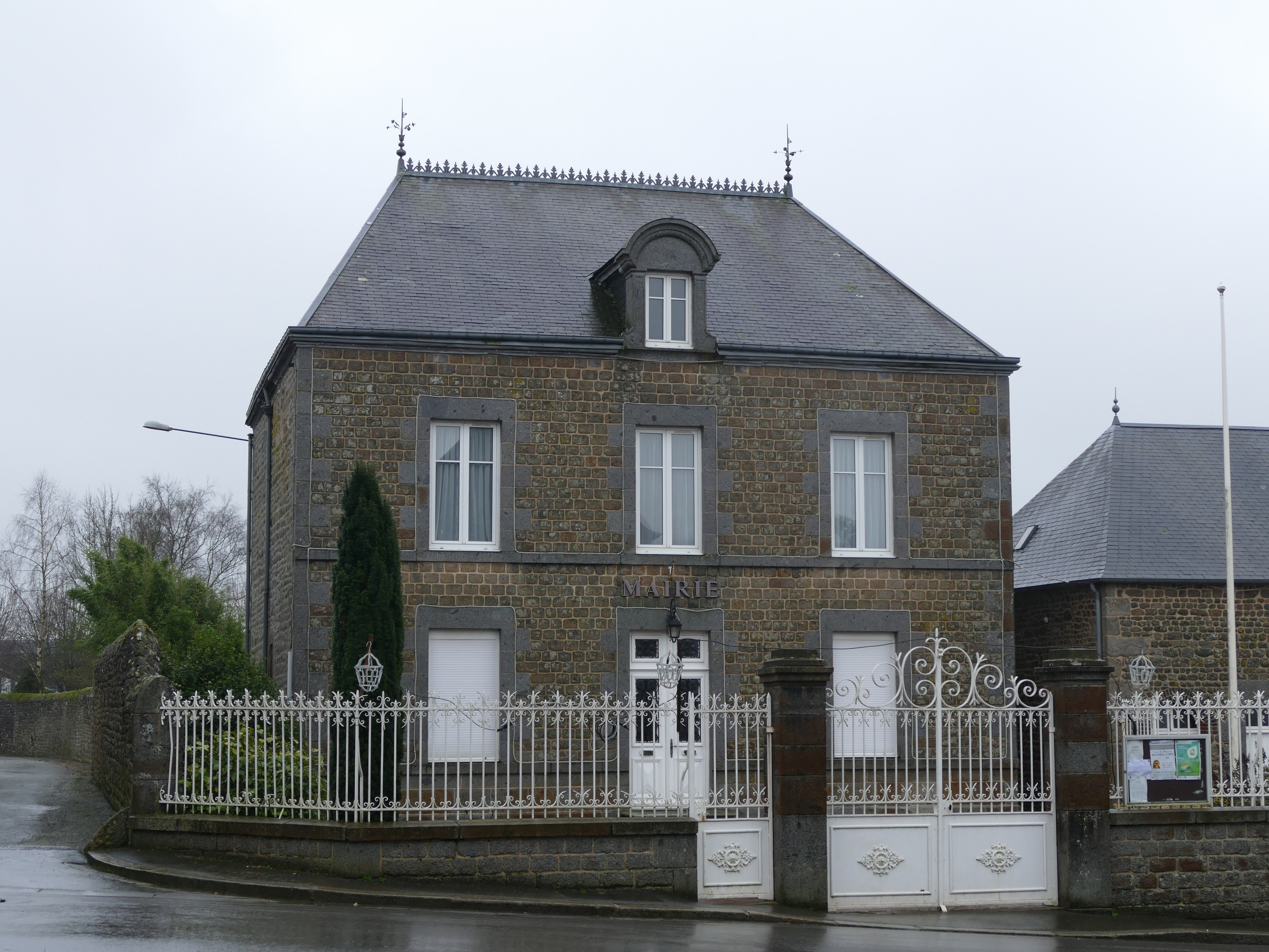 The city hall in Magny-le-Désert (Orne, Normandie, France).